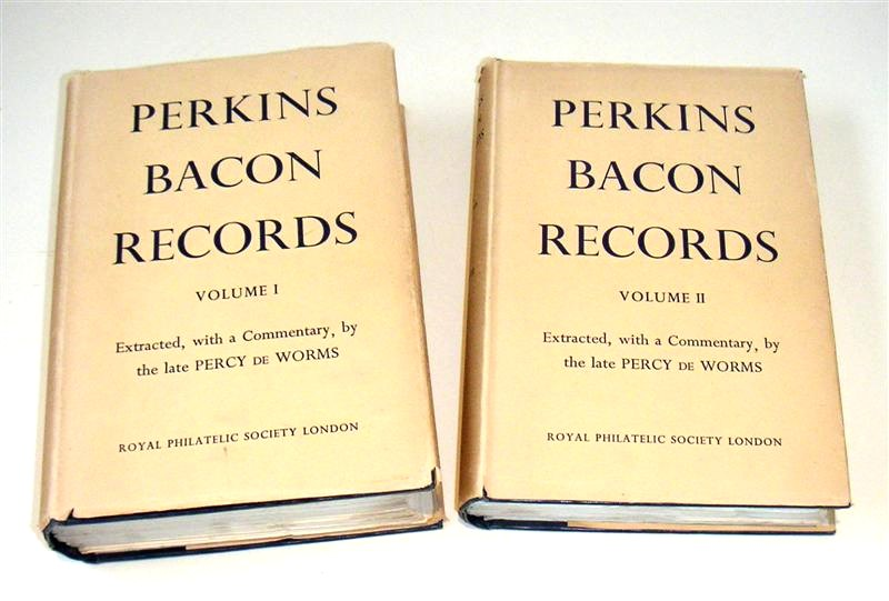 The cover of Perkins Bacon Records by Percy de Worms, 1953.